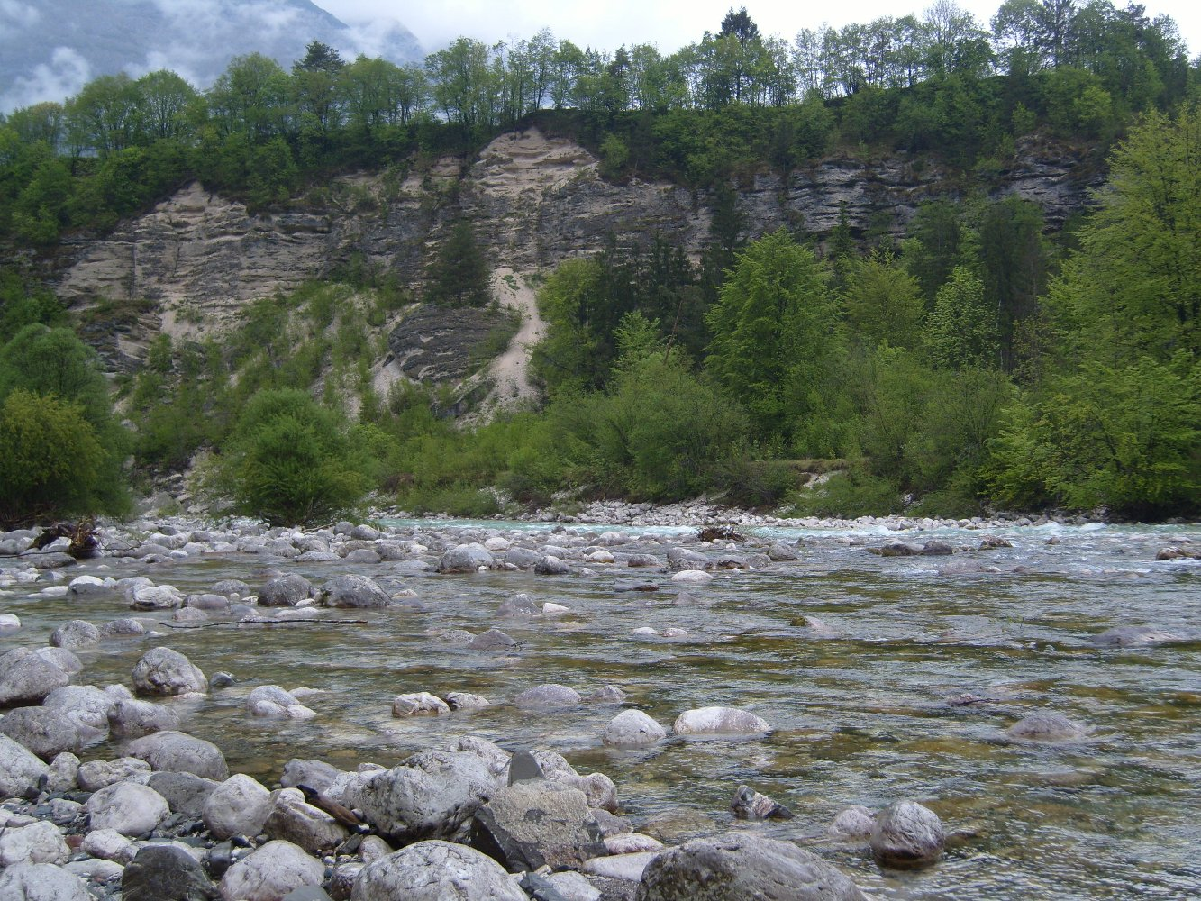 026 Soca